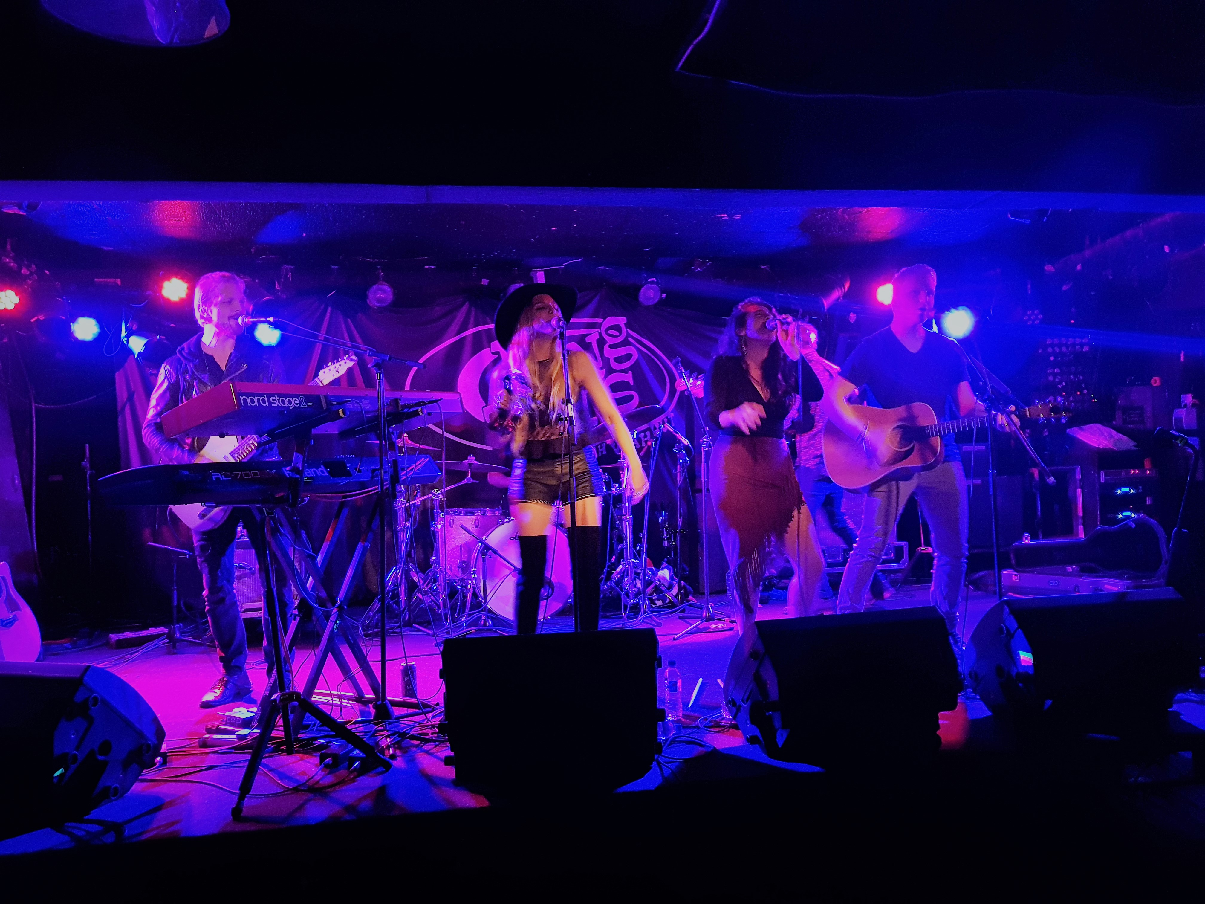 Delta Rae at King Tut's Wah Wah Hut, Glasgow, Scotland